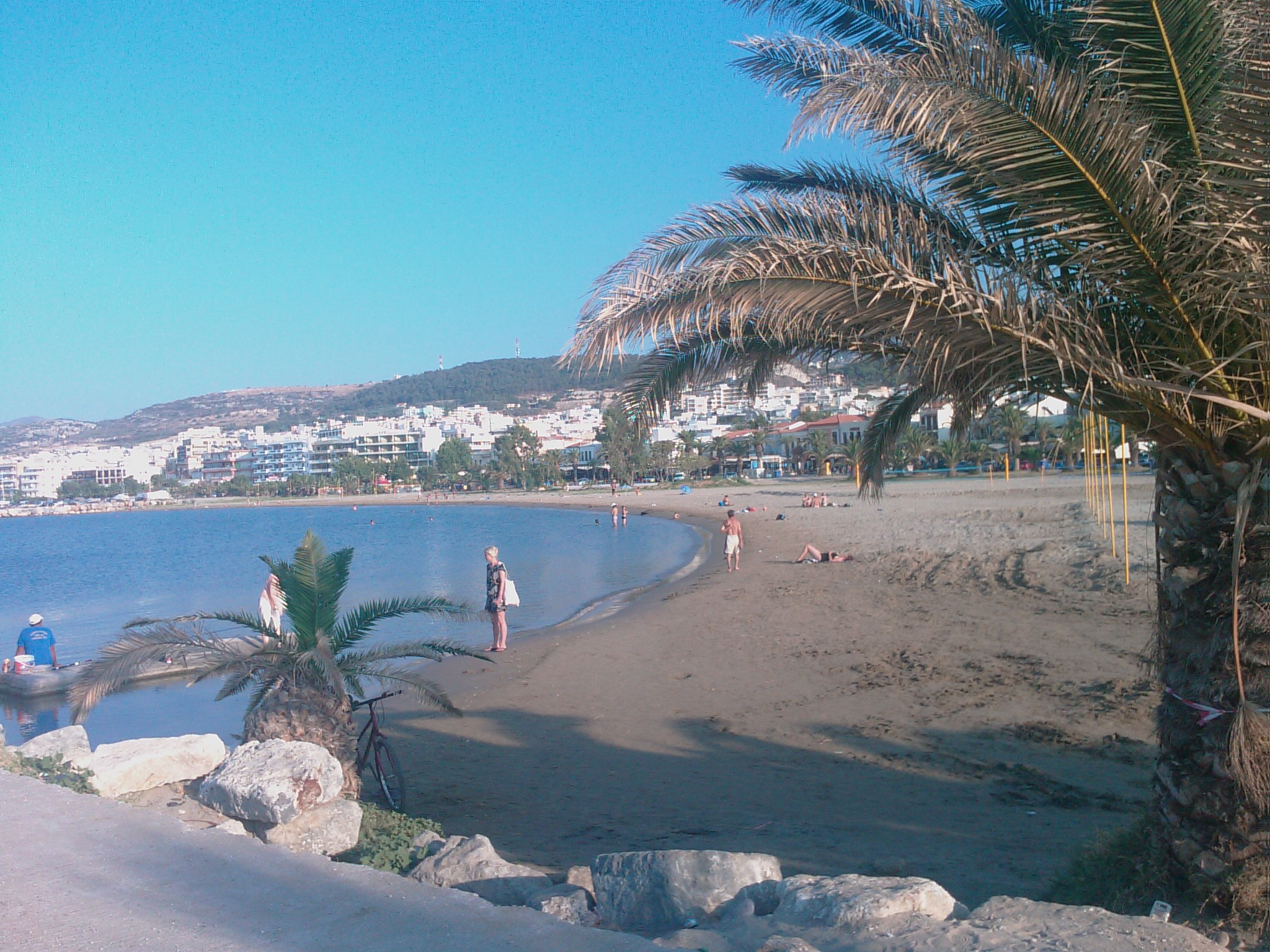 City beach of Rethymno, Crete, Greece